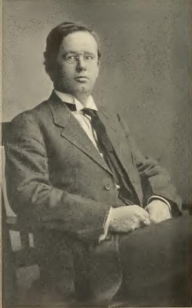 The writer and poem Oliver Allstorm